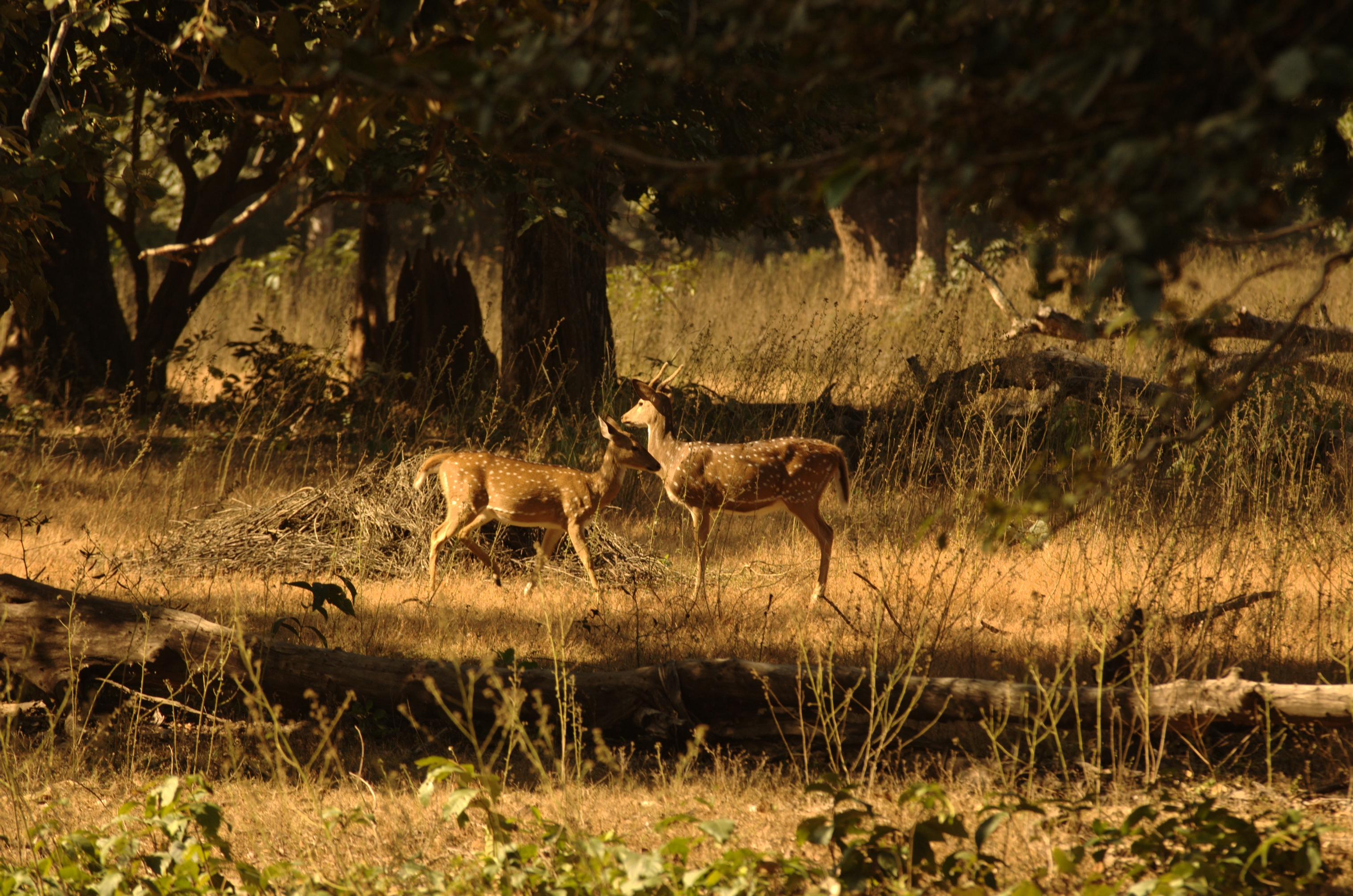 Axis deer (Axis axis) in Kanha